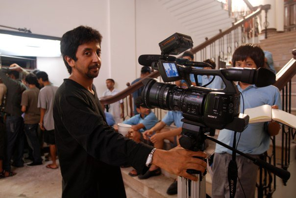 Ashvin Kumar shooting for his film Dazed in Doon (2010) in The Doon School, India for its Platinum Jubilee celebrations.